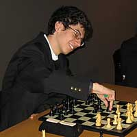 Chess GM Alejandro Ramírez